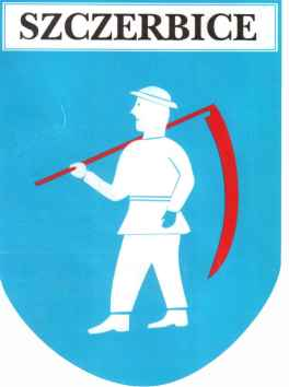 Coat of arms of Szczerbice, Poland